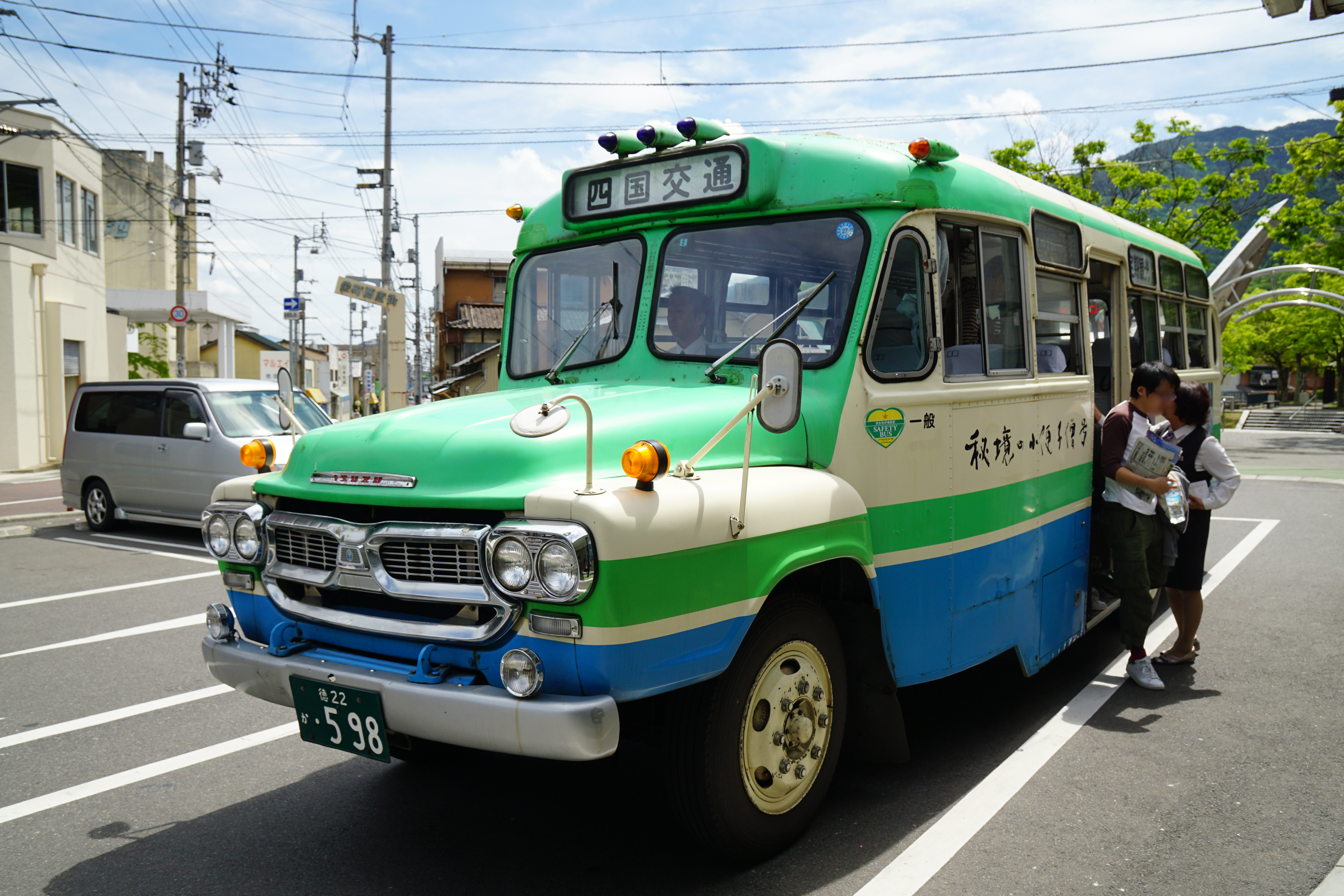 At Awa-Ikeda Station in Miyoshi, Tokushima prefecture, Japan.